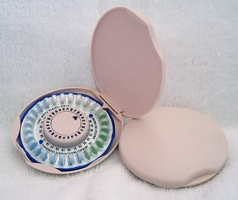 Picture Of Ortho Tri-Cyclen oral contraceptives with Ortho Dialpak dispensers (photo taken by self).